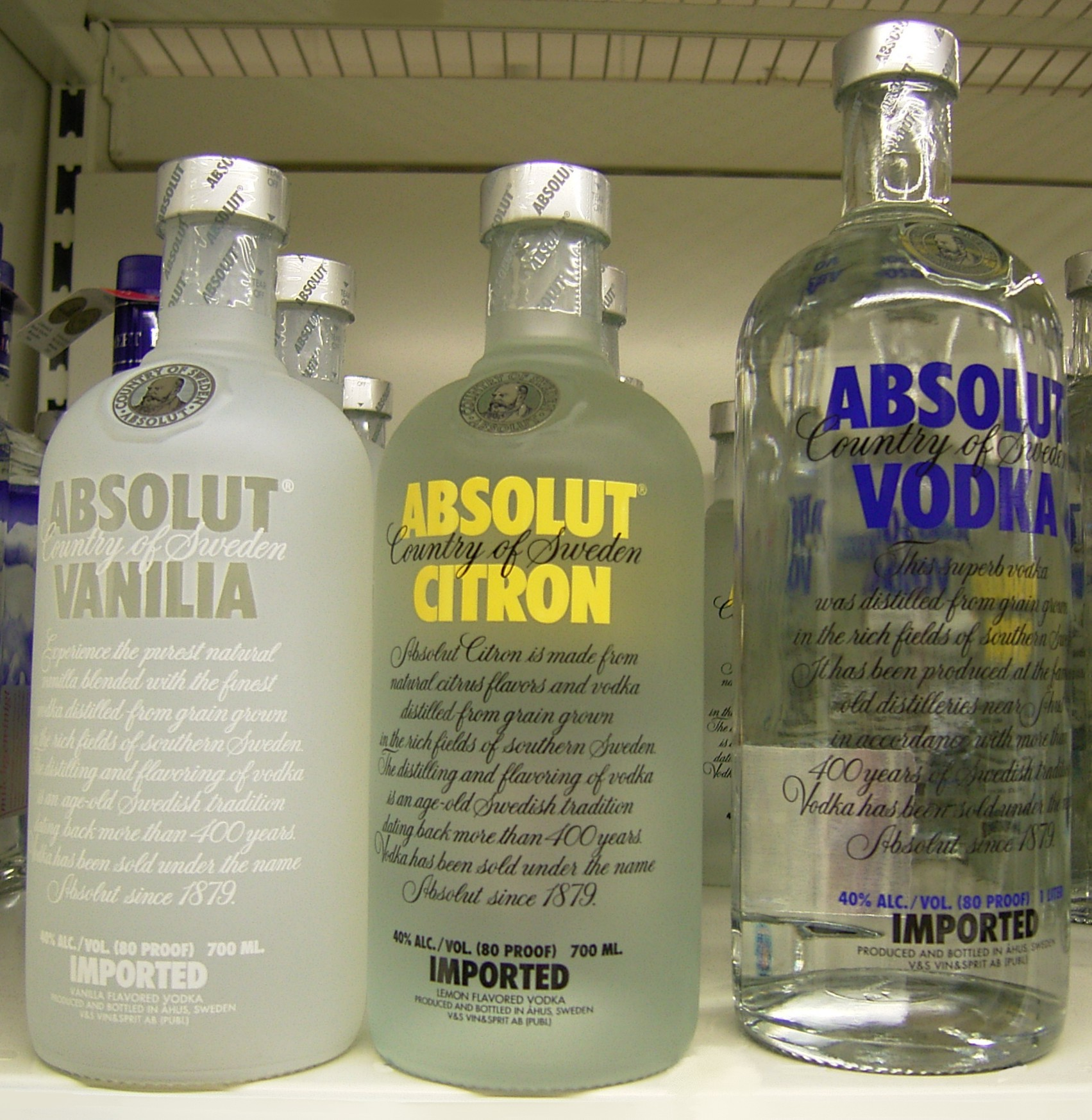 Three different Absolut Vodka Bottles